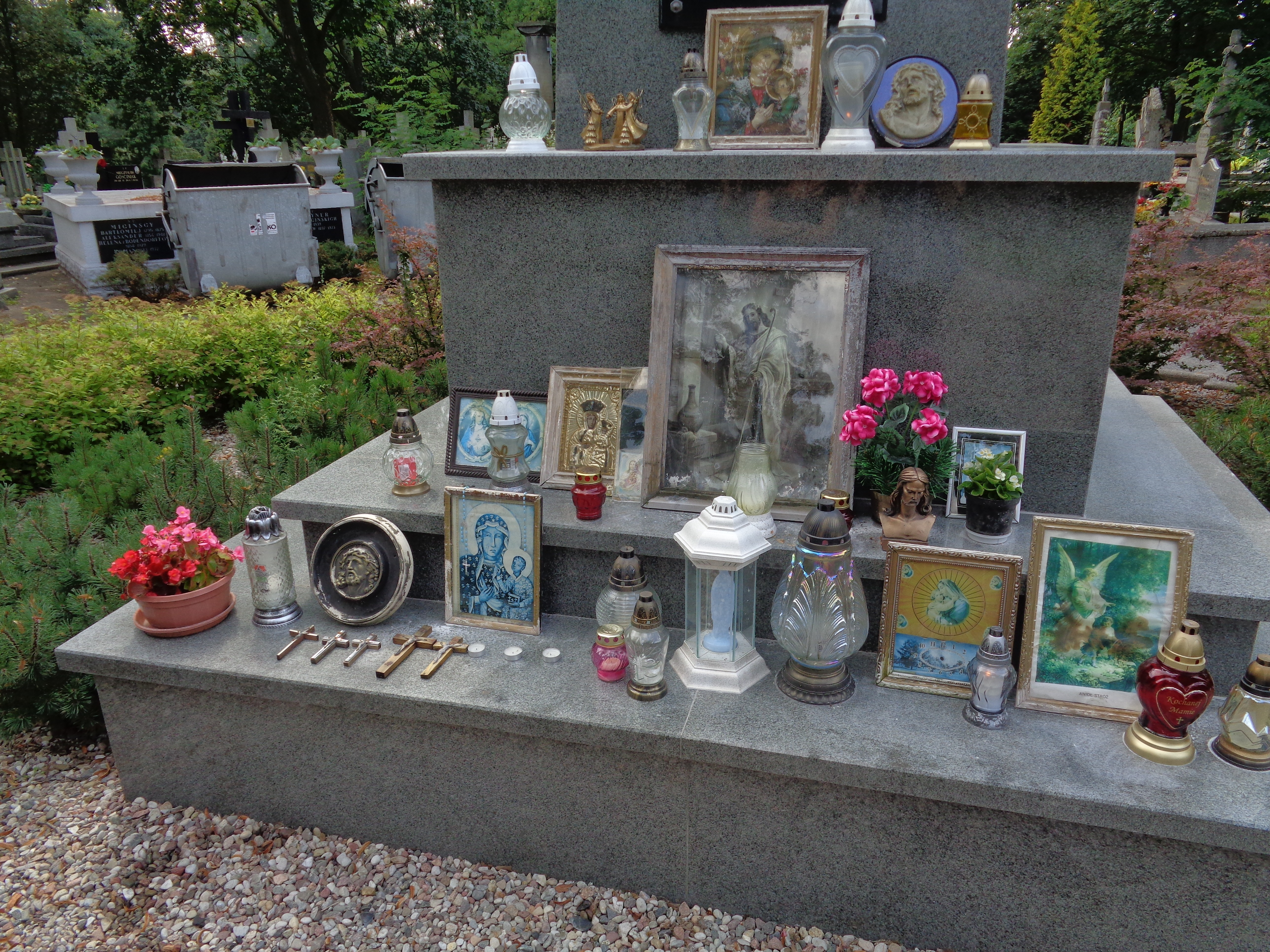 Old paintings, reliefs, crucifixes and snitches left under the monument of Christus the King on Włocławek communal cemetery.